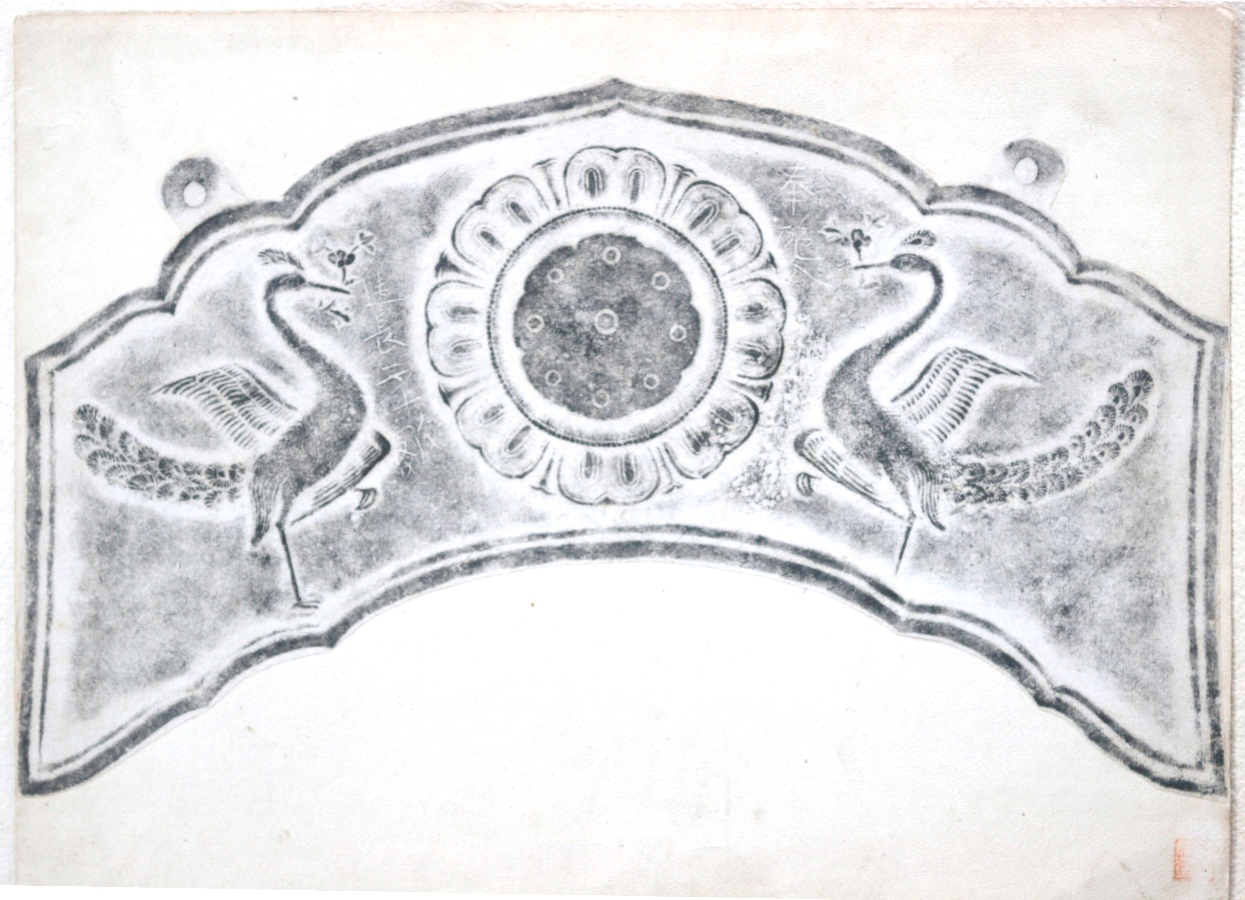 Rubbing of Buddhist ritual gong with peacock relief, Cast bronze gilt, Pair of peacock motif on both sides. 1250-01-01 Date incised: January 1, 1250. Kamakura period, 32.5cm wide. Chūson-ji, Hiraizumi, Iwate、Japan